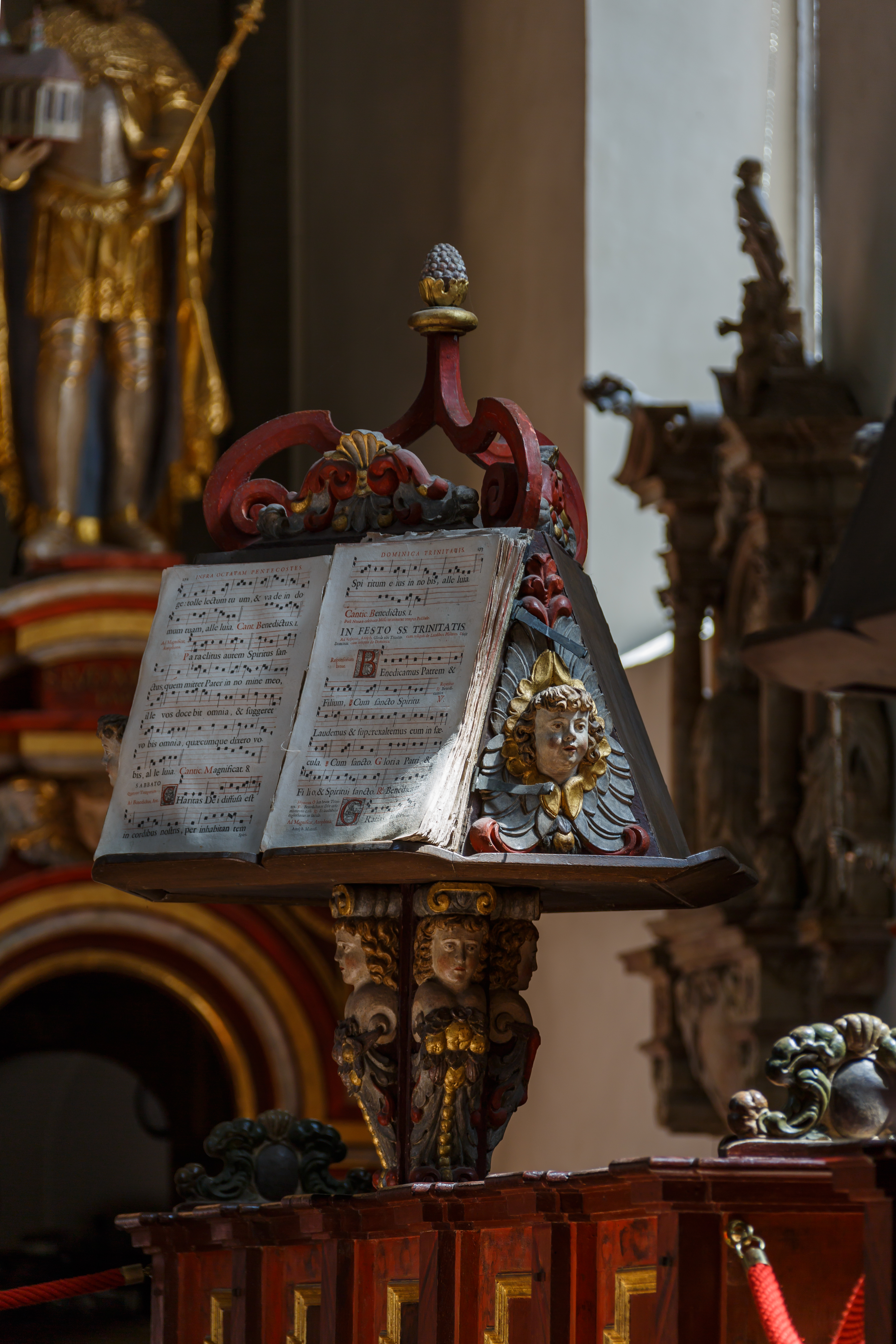 Höxter, Germany: Reading stand in the Basilika St. Stephanus and St. Vitus in Corvey with the Responsorium "Benedictus Patrem et Filium", Canonical hours for Sunday Trinitatis